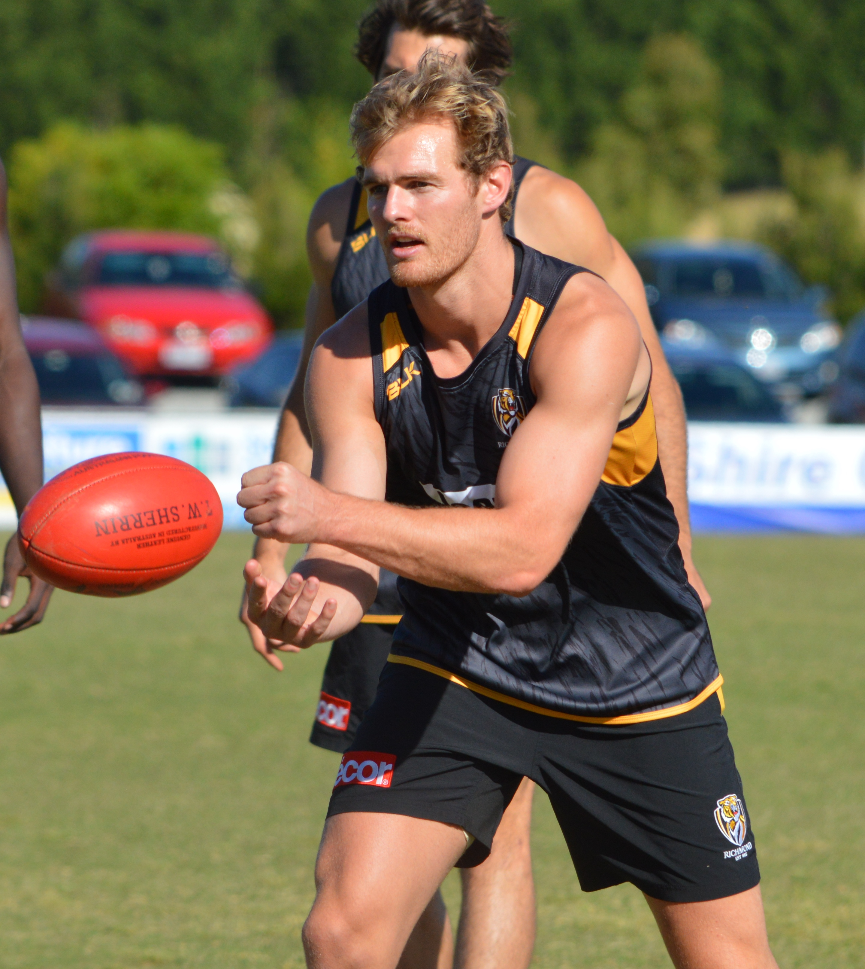 David Astbury at the Richmond Football Club's family day in Beaconsfield, Victoria on 20 December 2016.